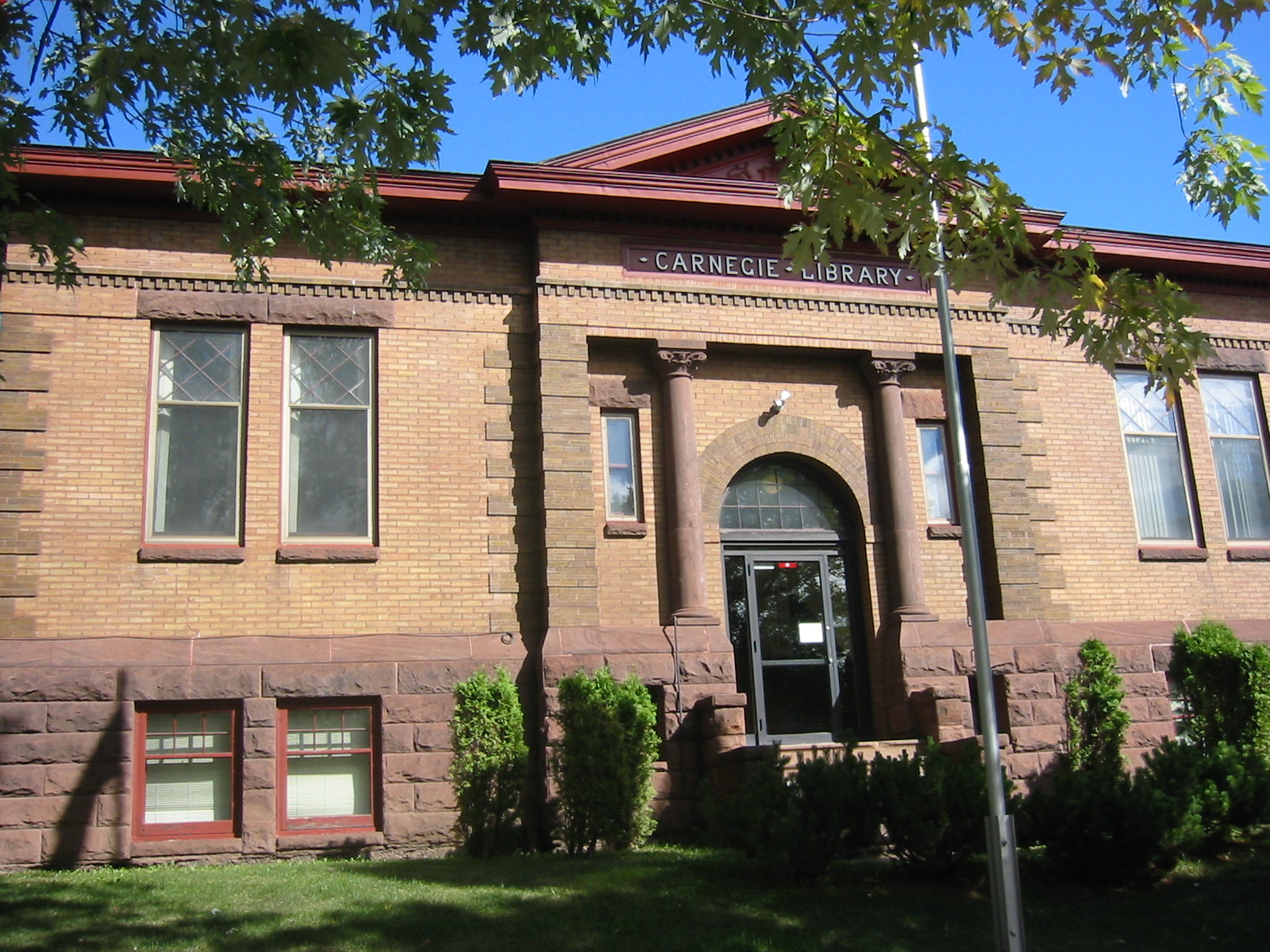 Two Harbors Carnegie Library in Two Harbors, Minnesota.